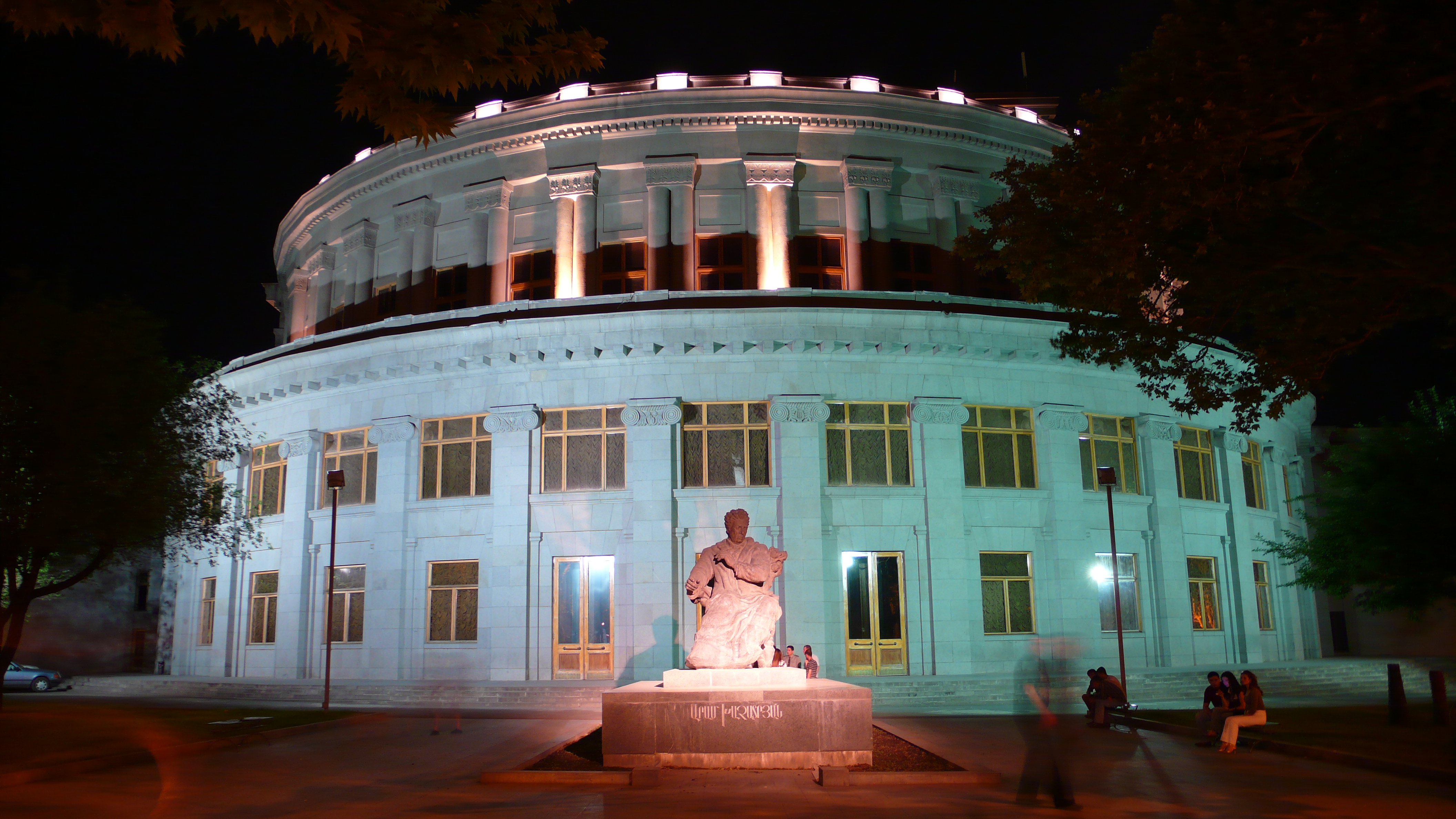 Opera in Yerevan, Armenia